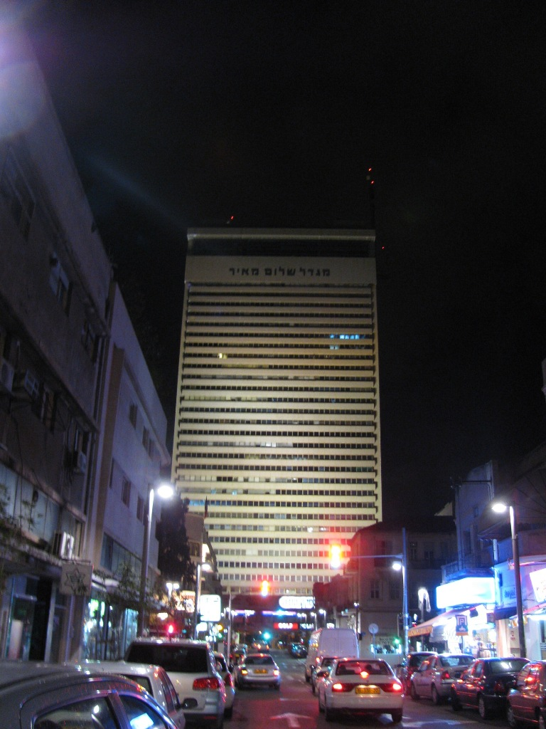 The first tower of Tel - Aviv Shalom Tower to where stood Gmansih Herzliya